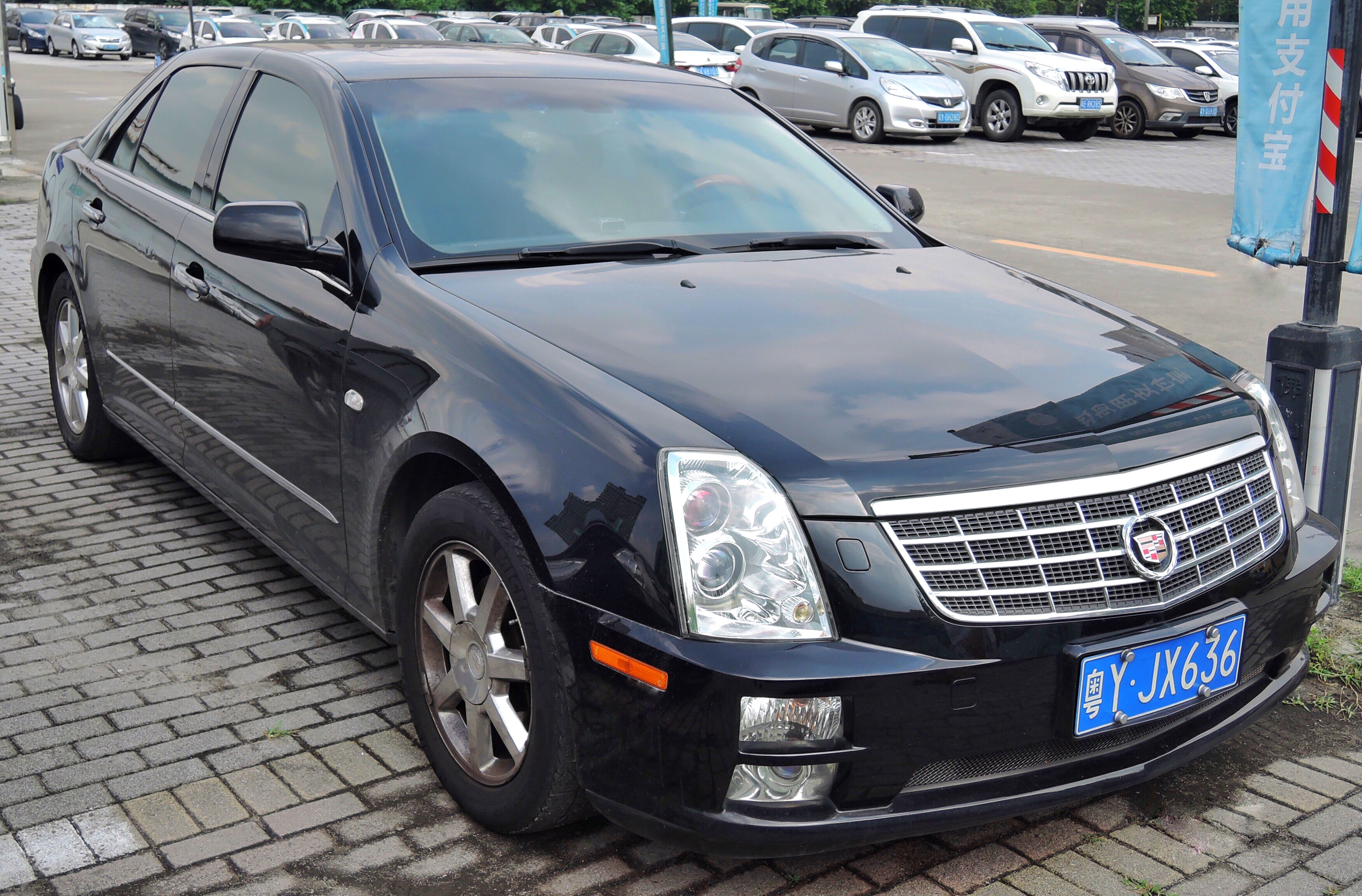 A 2007 Cadillac SLS taken in Foshan, Guangdong province, China.